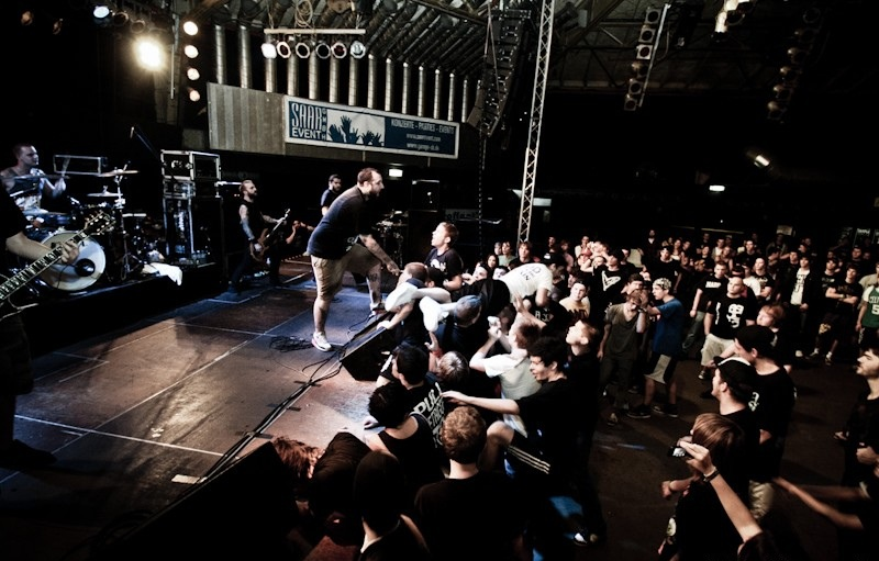 The Acacia Strain live at the Hell on Earth Tour in Saarbrücken, Germany (2010).